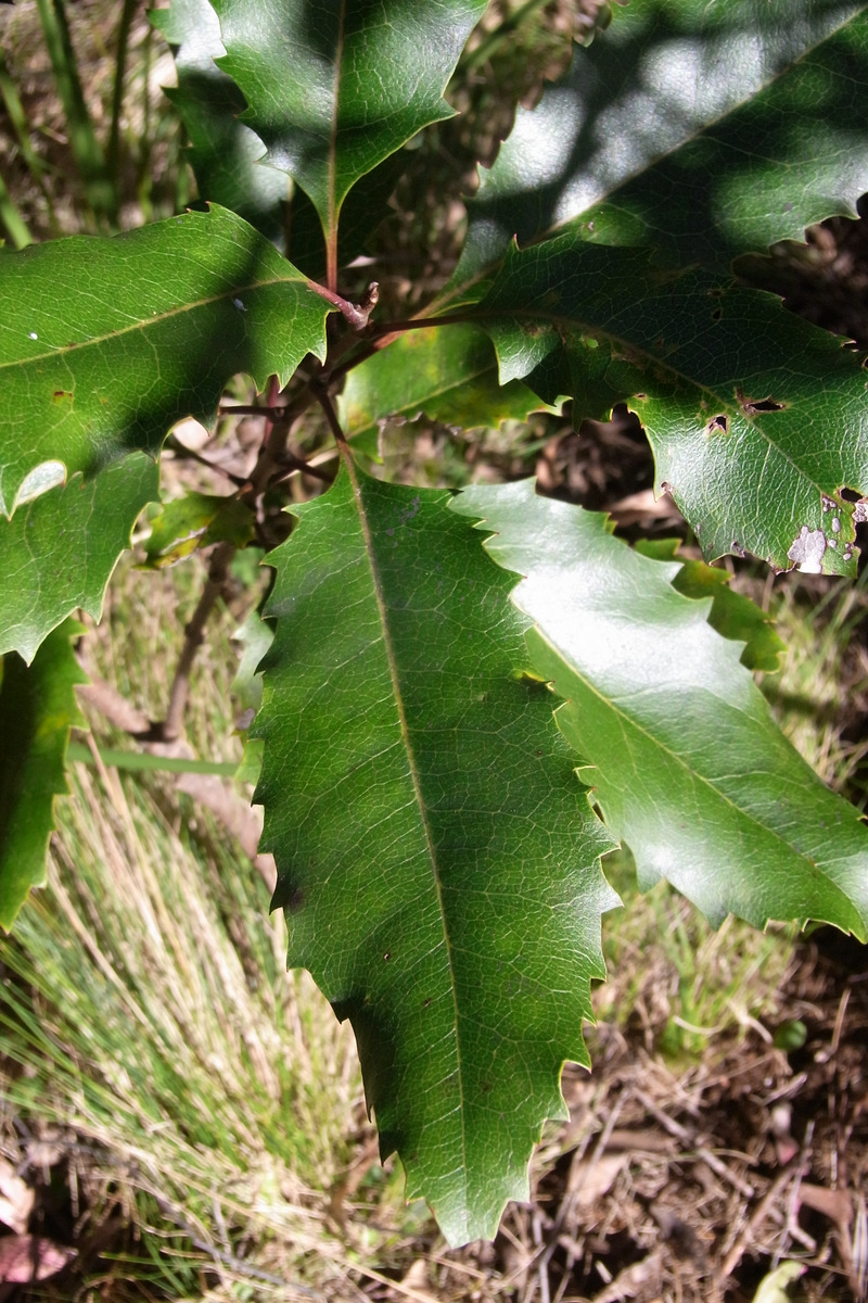 Lomatia arborescens, identified by RB Gardens, Sydney. Cobark Park, Barrington Tops.